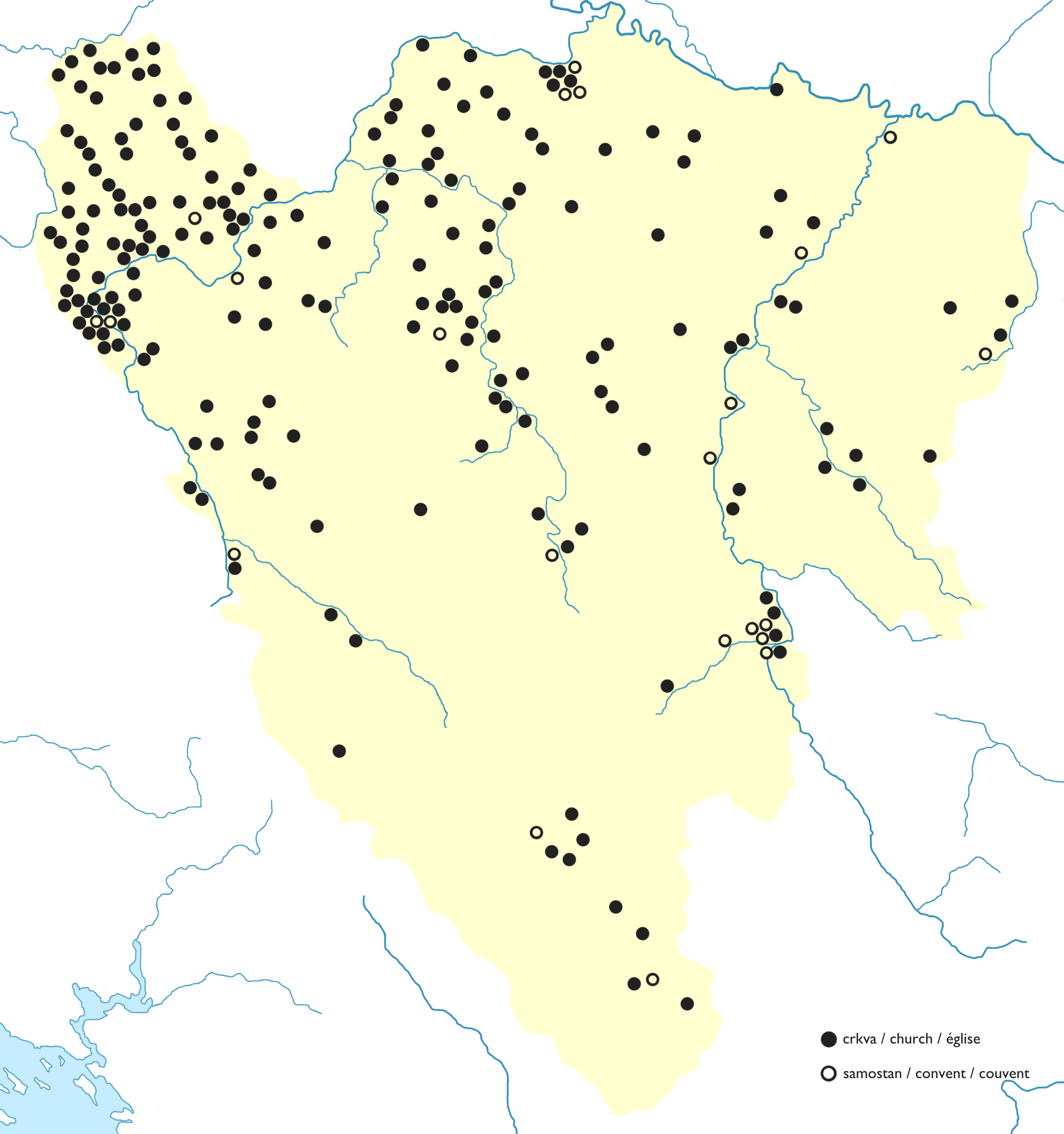 Roman Catholic Churches and convents in the Middle Ages (before 1463) on the area of present-day Diocese of Banja Luka